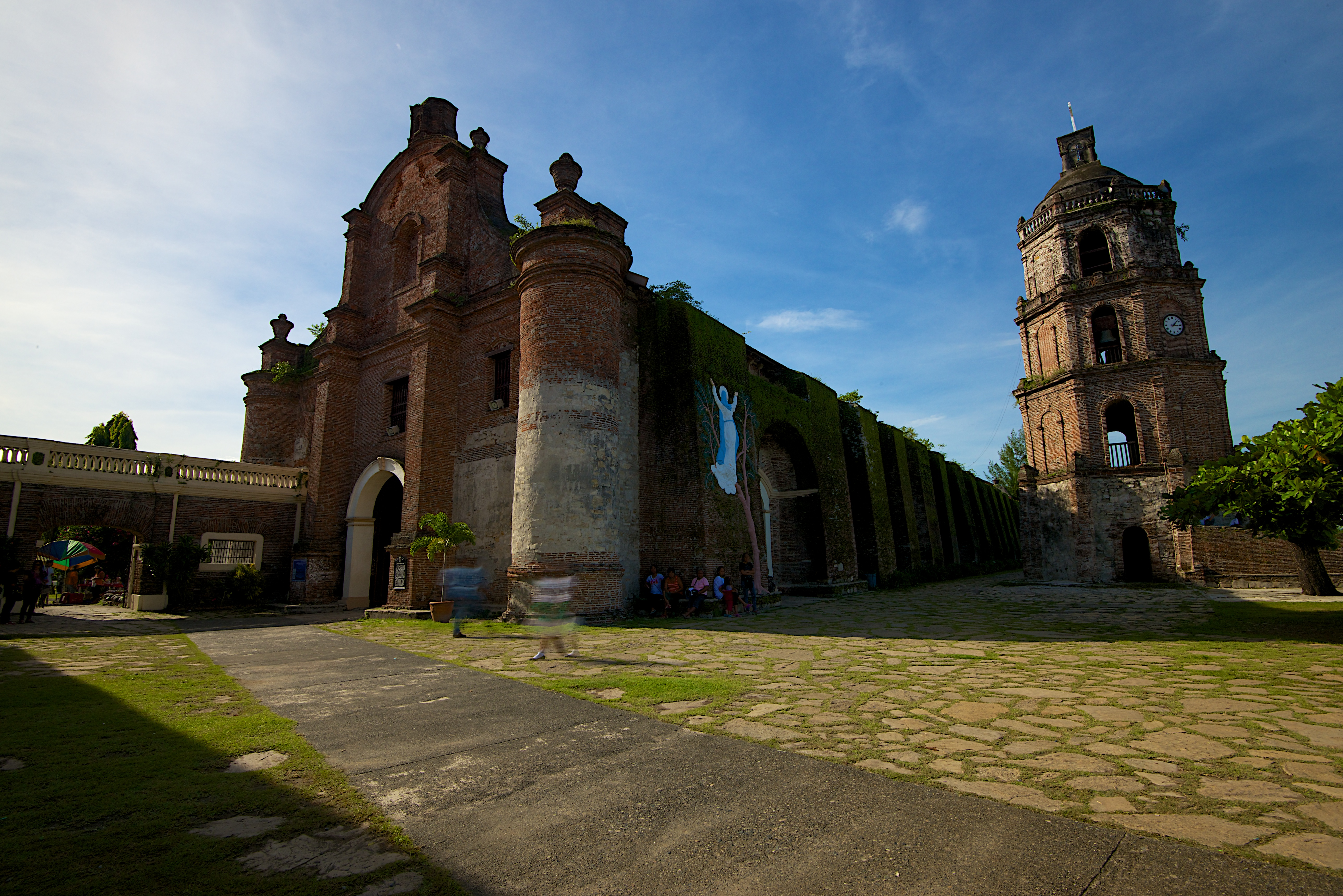 The Sta. Maria church in an early morning shot.